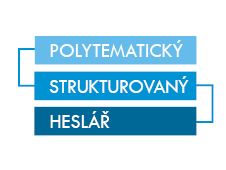 Logo of the library Polytematický strukturovaný heslářm, Czech Republic